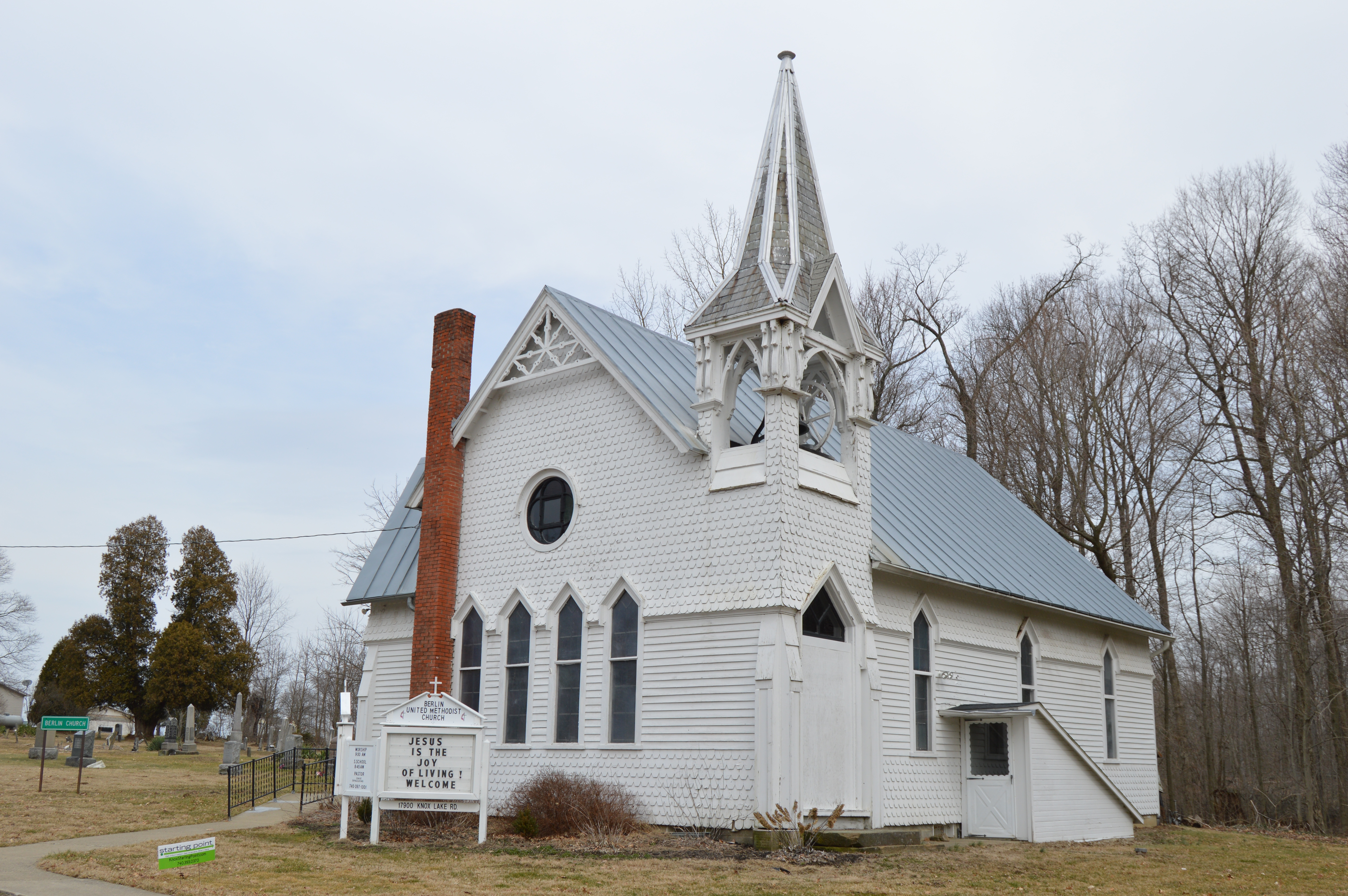 Front and southern side of the Berlin United Methodist Church, located at 17900 Knox Lake Road in southern Berlin Township, Knox County, Ohio, United States.